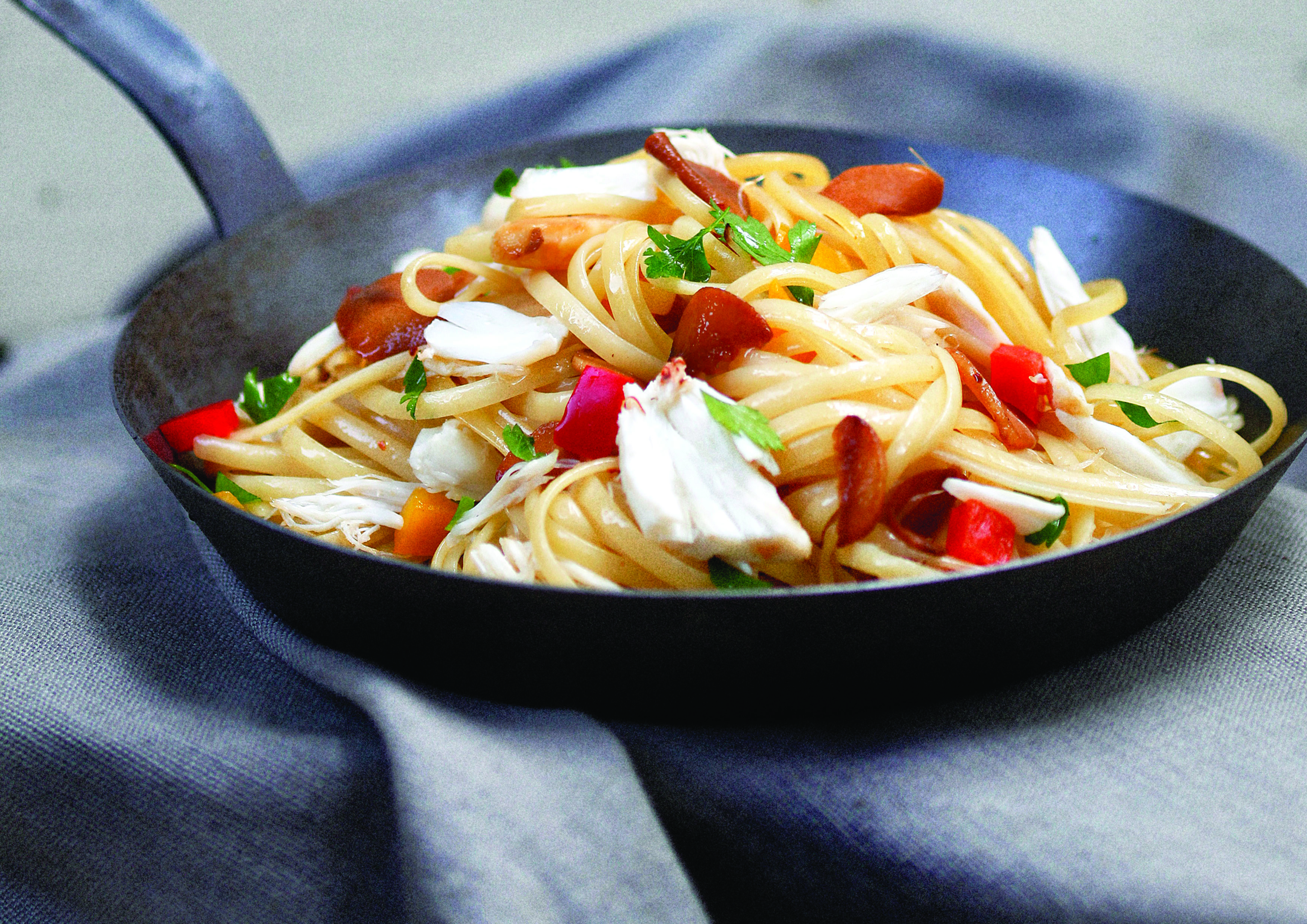 RedDot Linguine Crab Meat Pasta